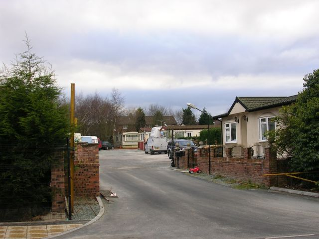 Brookdale Caravan Park. Entrance to Brookdale Caravan Park, Walkden. Home for Showpeople and other Travellers.